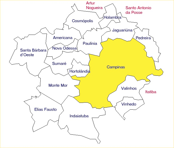 Political map of the micro-region of Campinas, state of São Paulo, Brazil. Names of municipalities in blue belong to the Administrative Micro-Region of Campinas. Names in red also belong to the Metropolitan Area of Campinas.